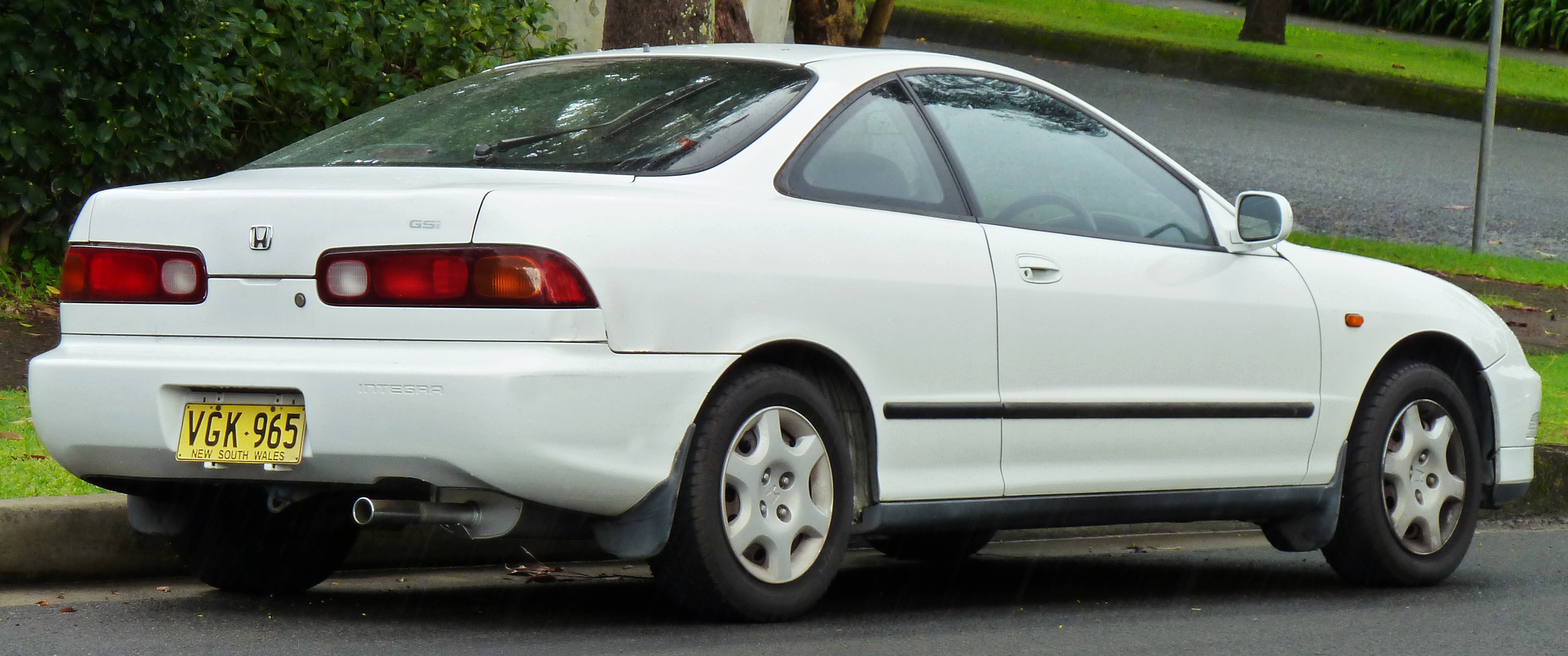 1994 Honda Integra GSi coupe. Photographed in Roseville, New South Wales, Australia.